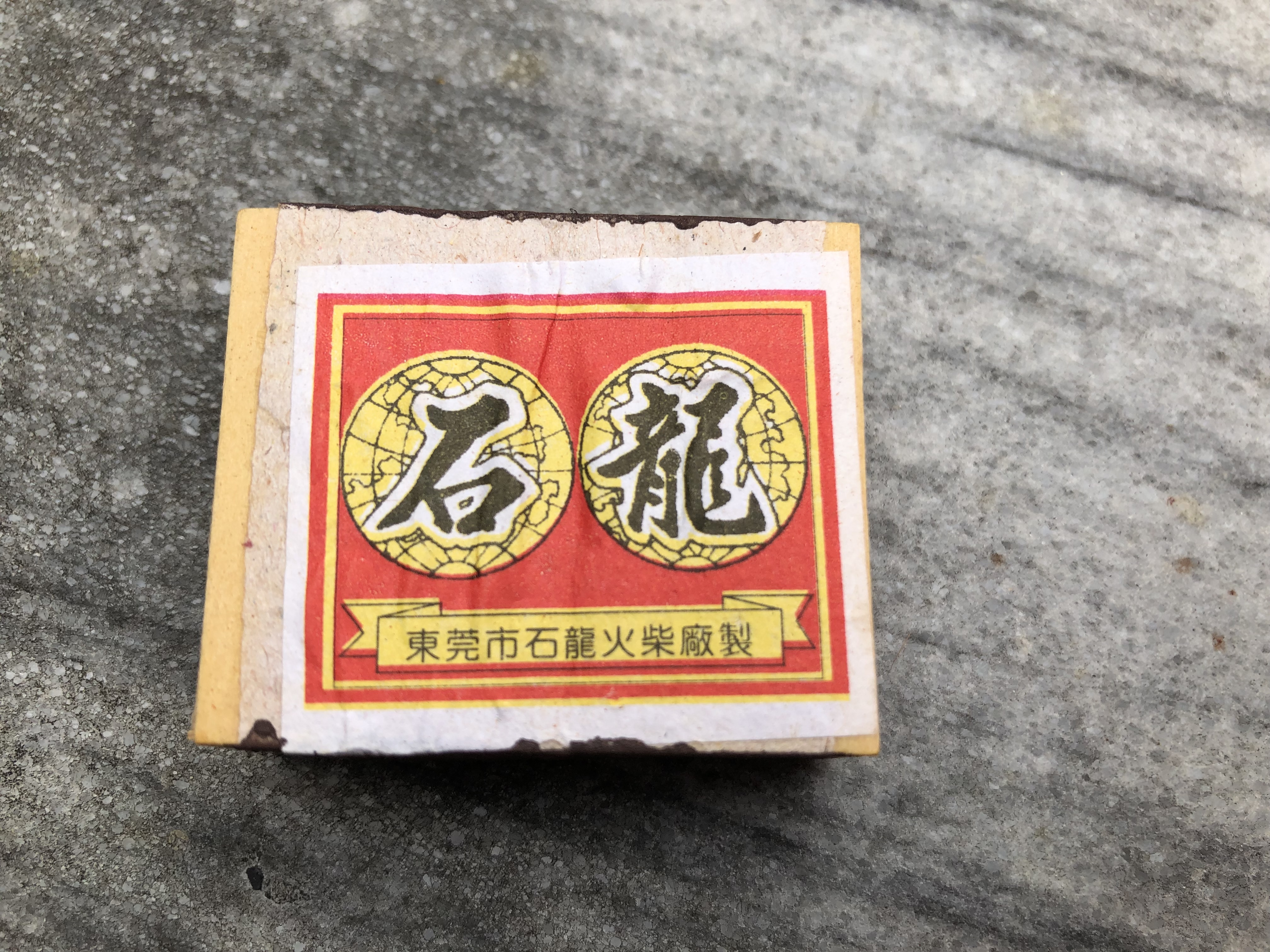 matches